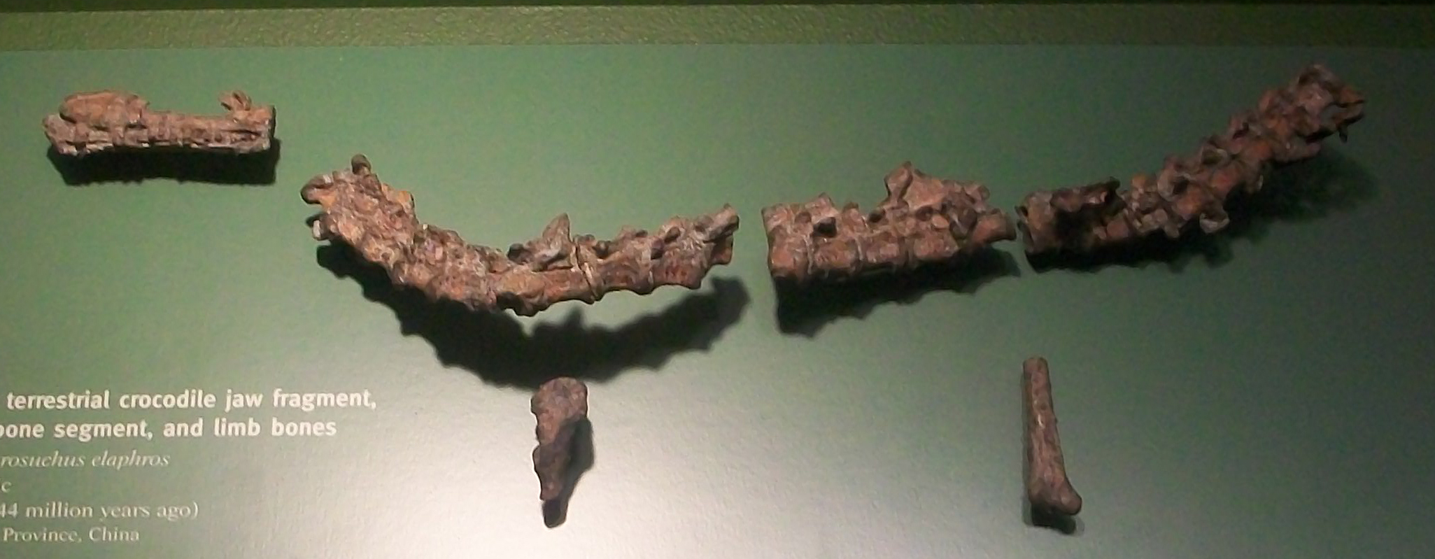 Vertebrae and limb bones of Dibothrosuchus elaphros in the Field Museum of Natural History.